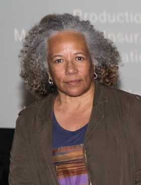 This is an image of photographer Pat Ward Williams at the premiere of Through A Lens Darkly, a documentary about black photographers. The photo was taken April 4, 2014 in Atlanta, GA and has been cropped.